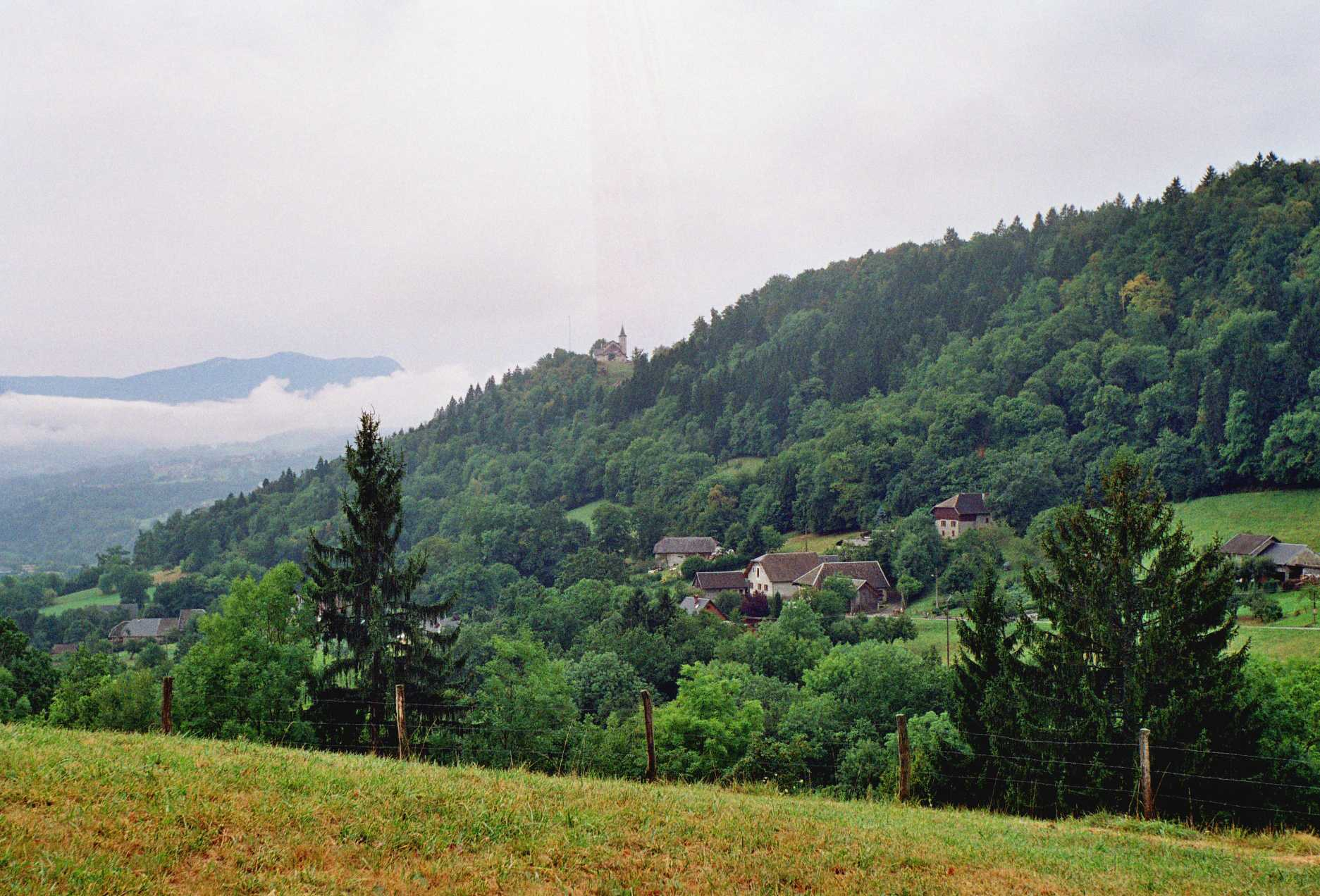 Village of Saint-Sylvestre (Haute-Savoie, France)